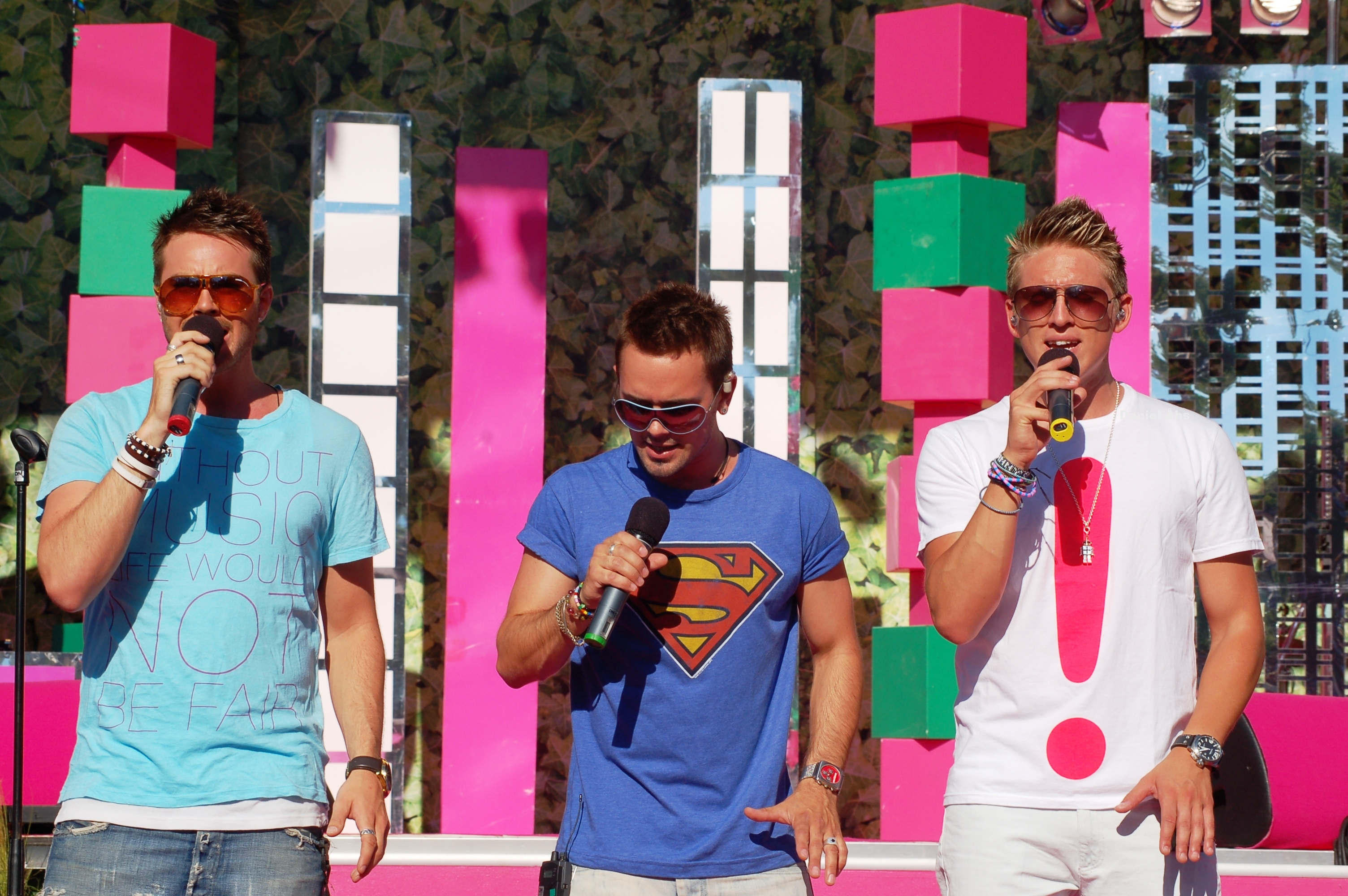 EMD in Stockholm at Gröna Lund, Sommarkrysset.